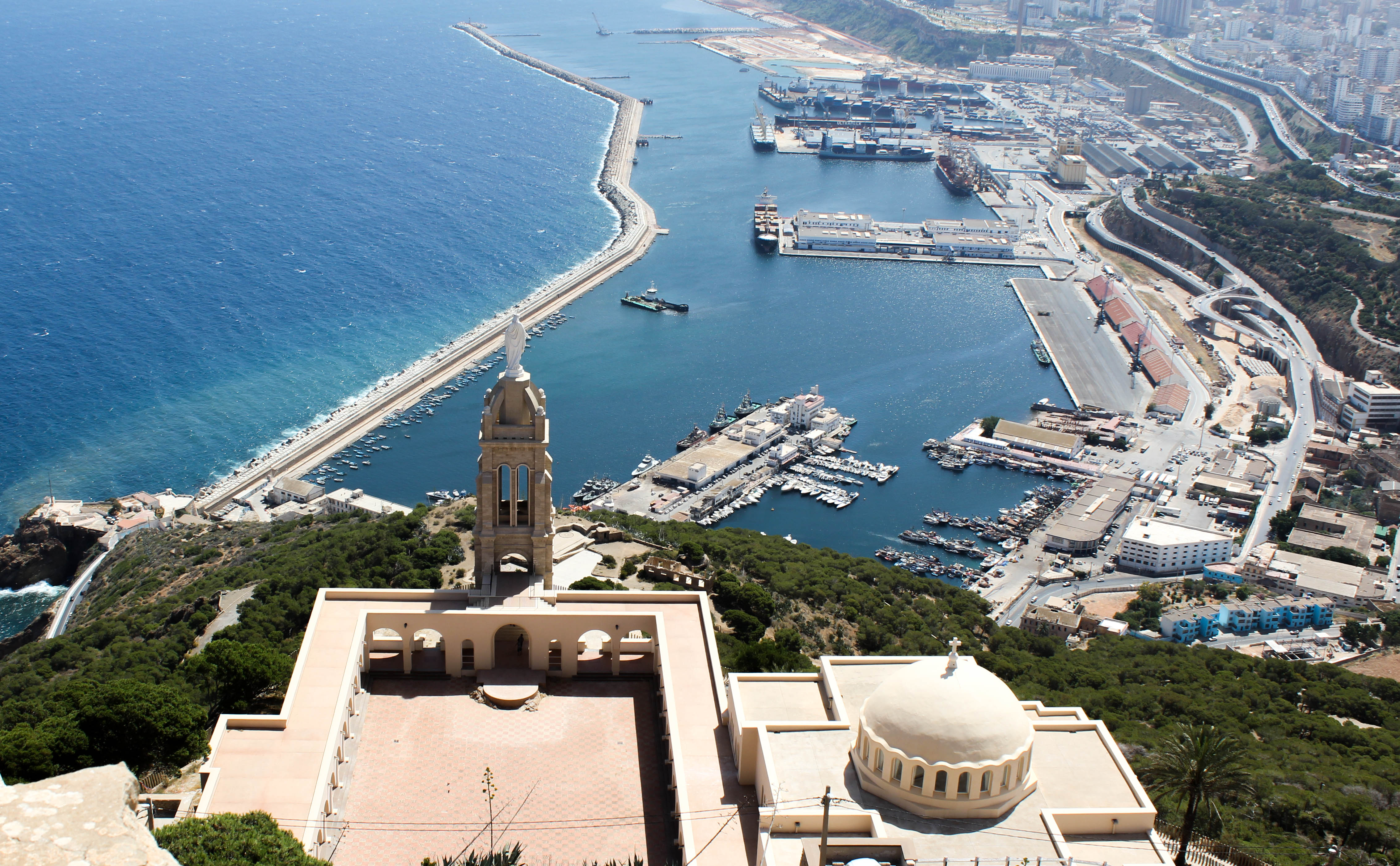 Fort Santa Cruz, Oran, is one of the three forts in Oran, the second largest port city of Algeria; the other two forts are Fort de la Moune at the western end of the port and Fort St. Philippe.The three forts are connected by tunnels. Fort Santa Cruz was built by the Spaniards on the Pic d’Aidour above Gulf of Oran in the Mediterranean Sea